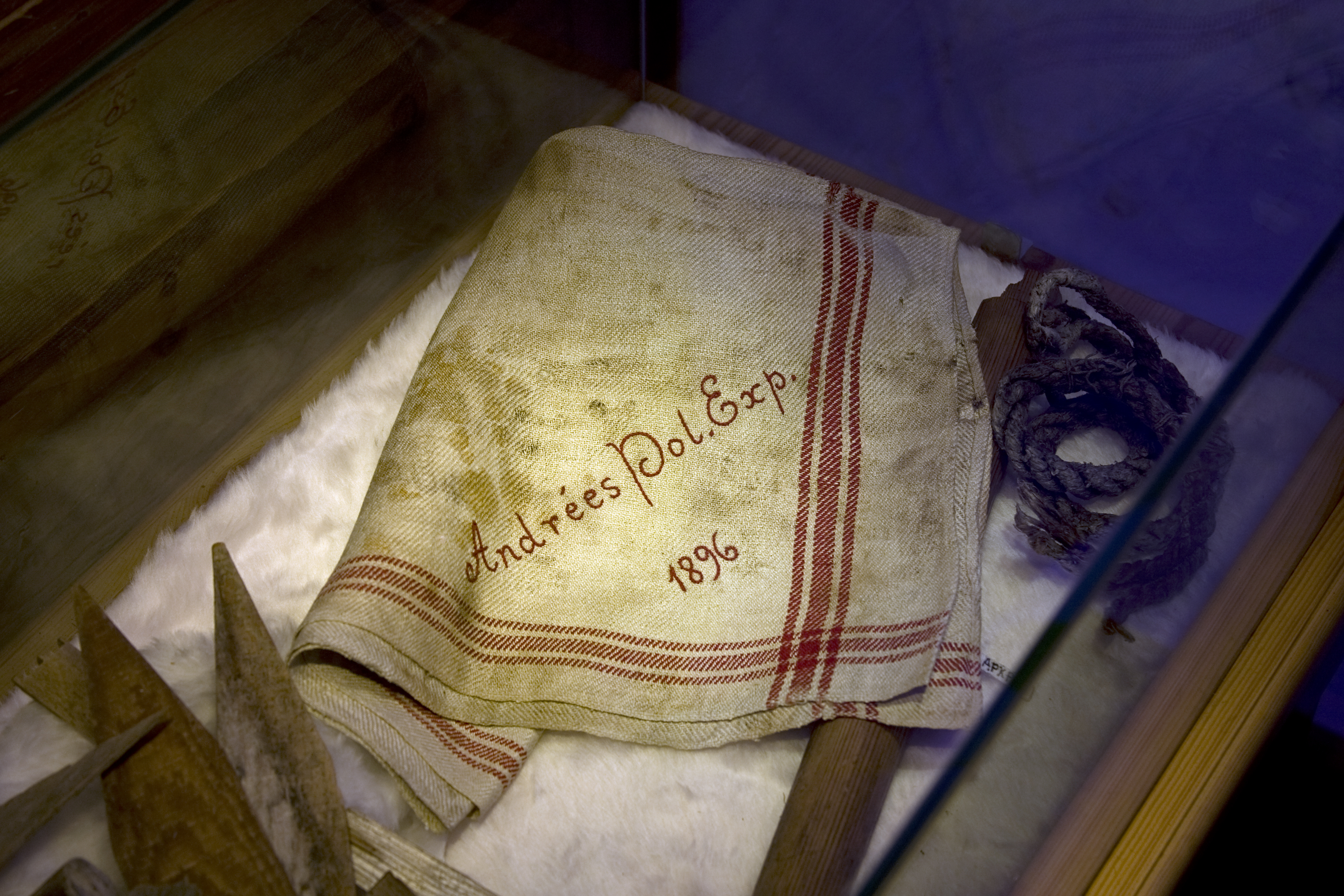 Towel recovered from the Andree polar expedition camp at Kvitoya. Currently in the Polarmuseet, Tromso, Norway.